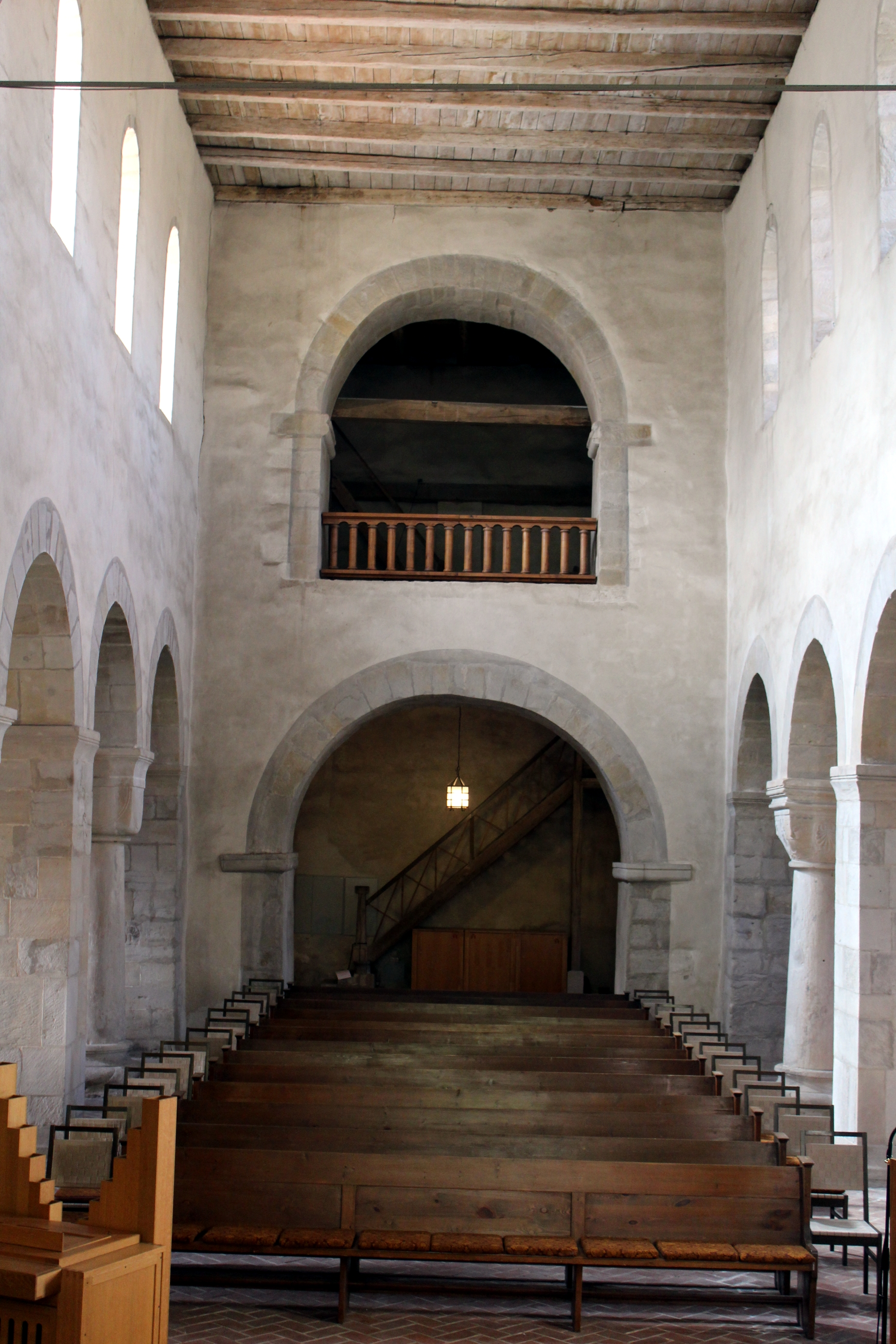 Klostermansfeld, St. Mary's Church, inner view